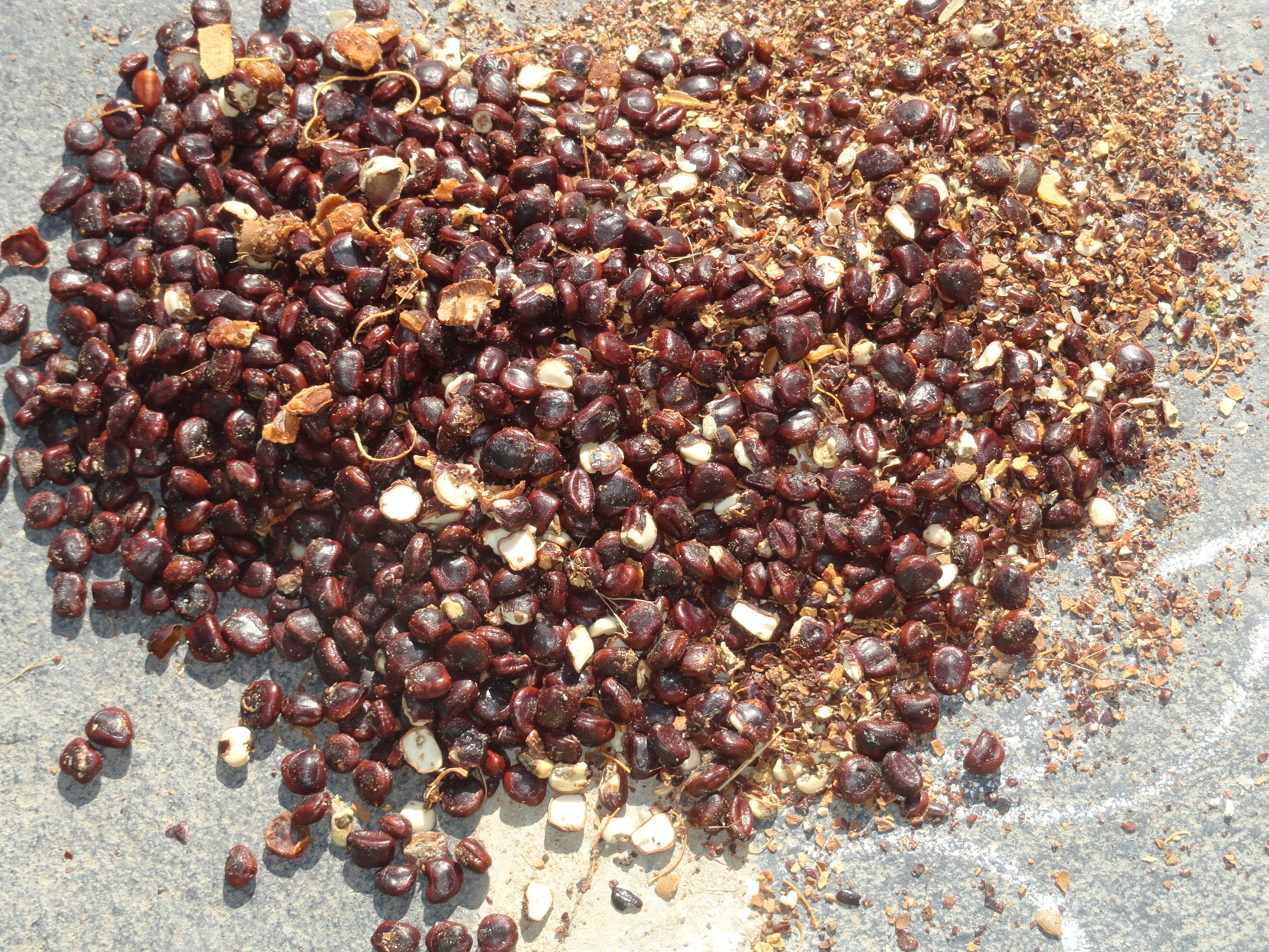 tamarind seeds